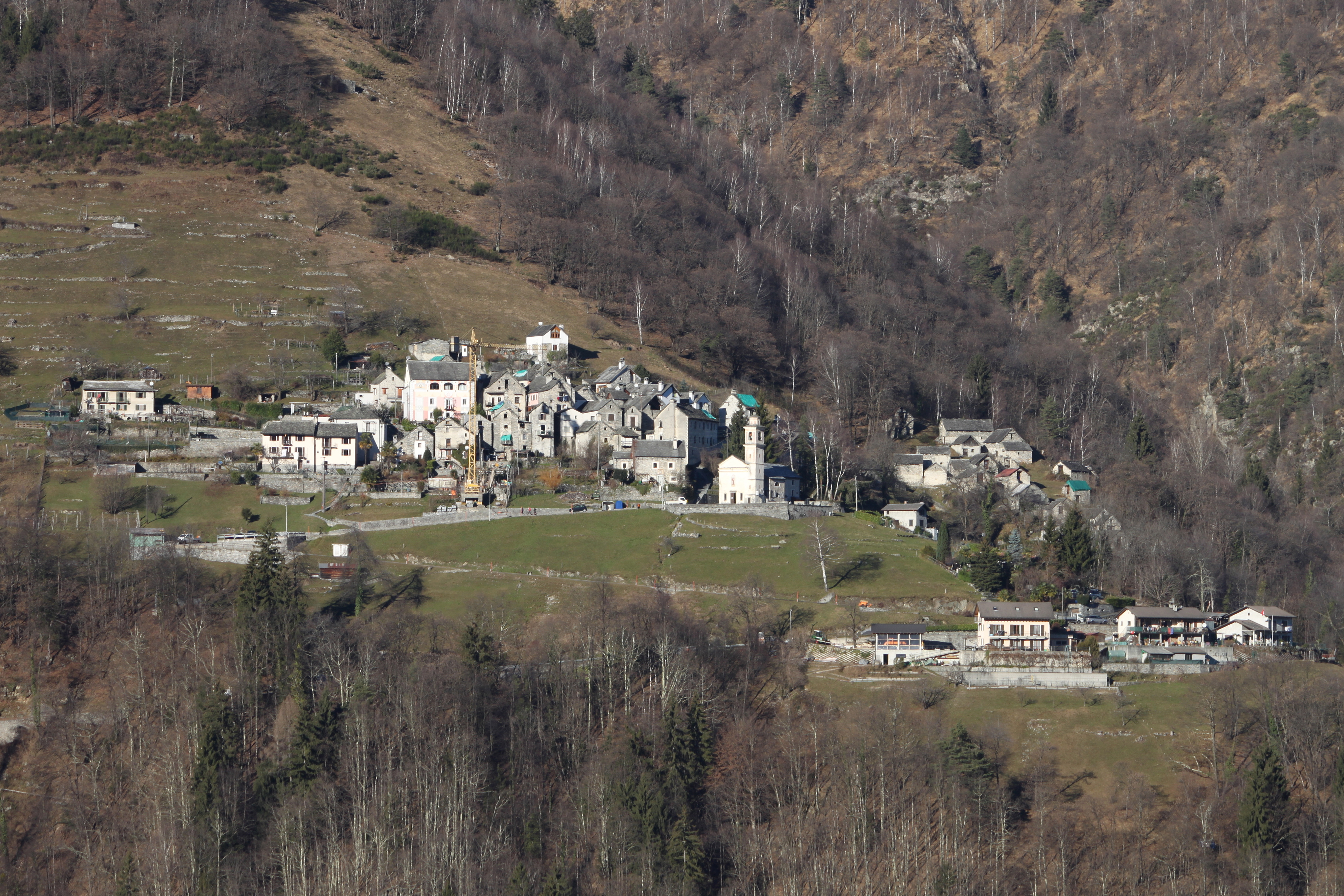 Lionza village, seen from Moneto.